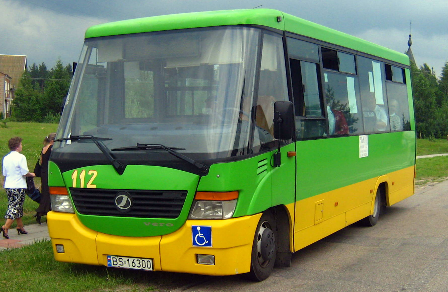 Jelcz M081MB/3 Vero bus (#112, reg. BS 16300) in Giby, Podlaskie Voivodeship, Poland. Build 2004, PGK Suwałki operator.